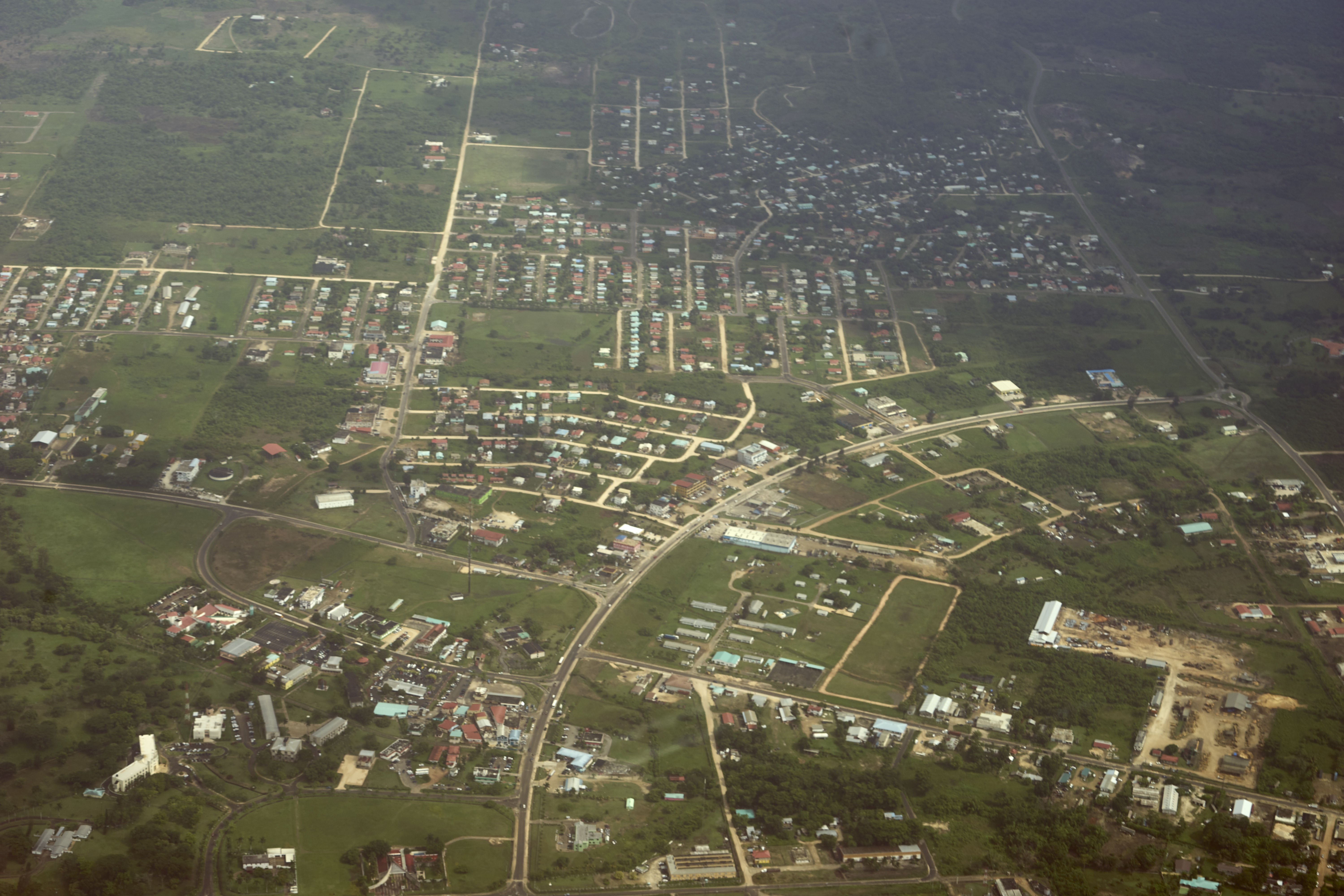 Aerial of Belize, Belmopan The making of this document was supported by the Community-Budget of Wikimedia Germany.